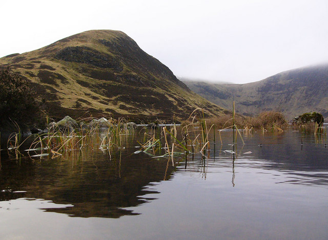 Mid Craig from Loch Skeen Just to the right of Mid Craig are the cliffs of Water Craig and Loch Craig